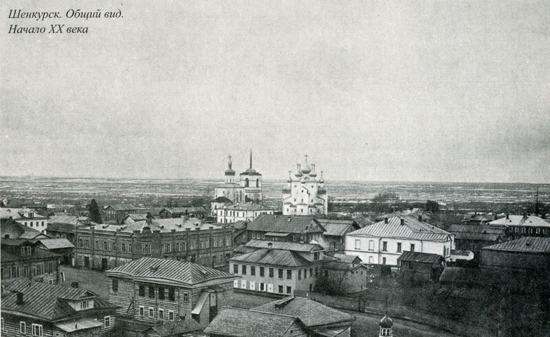 Shenkursk